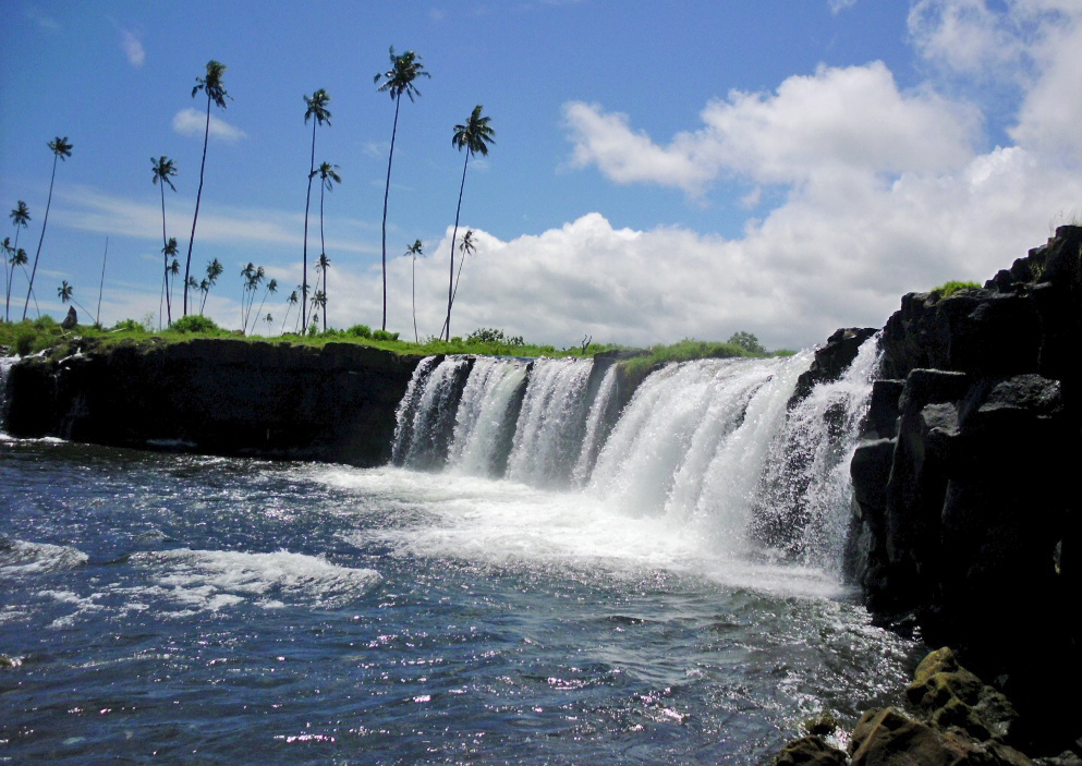 Savai'i Island, Samoa